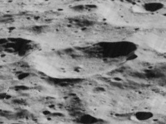 Oblique view of Hoffmeister crater, facing west